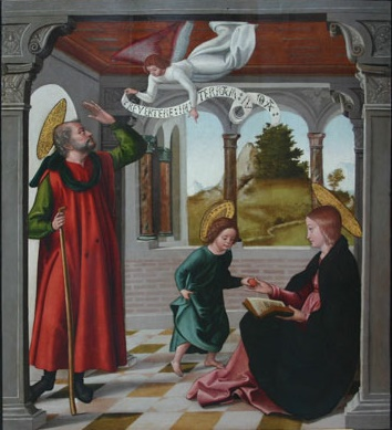 Aparición del ángel a san José (Sagrada Familia), óleo sobre tabla, retablo de Carboneras de Guadazon, Cuenca, Museo Diocesano